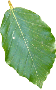 European Beech leaf